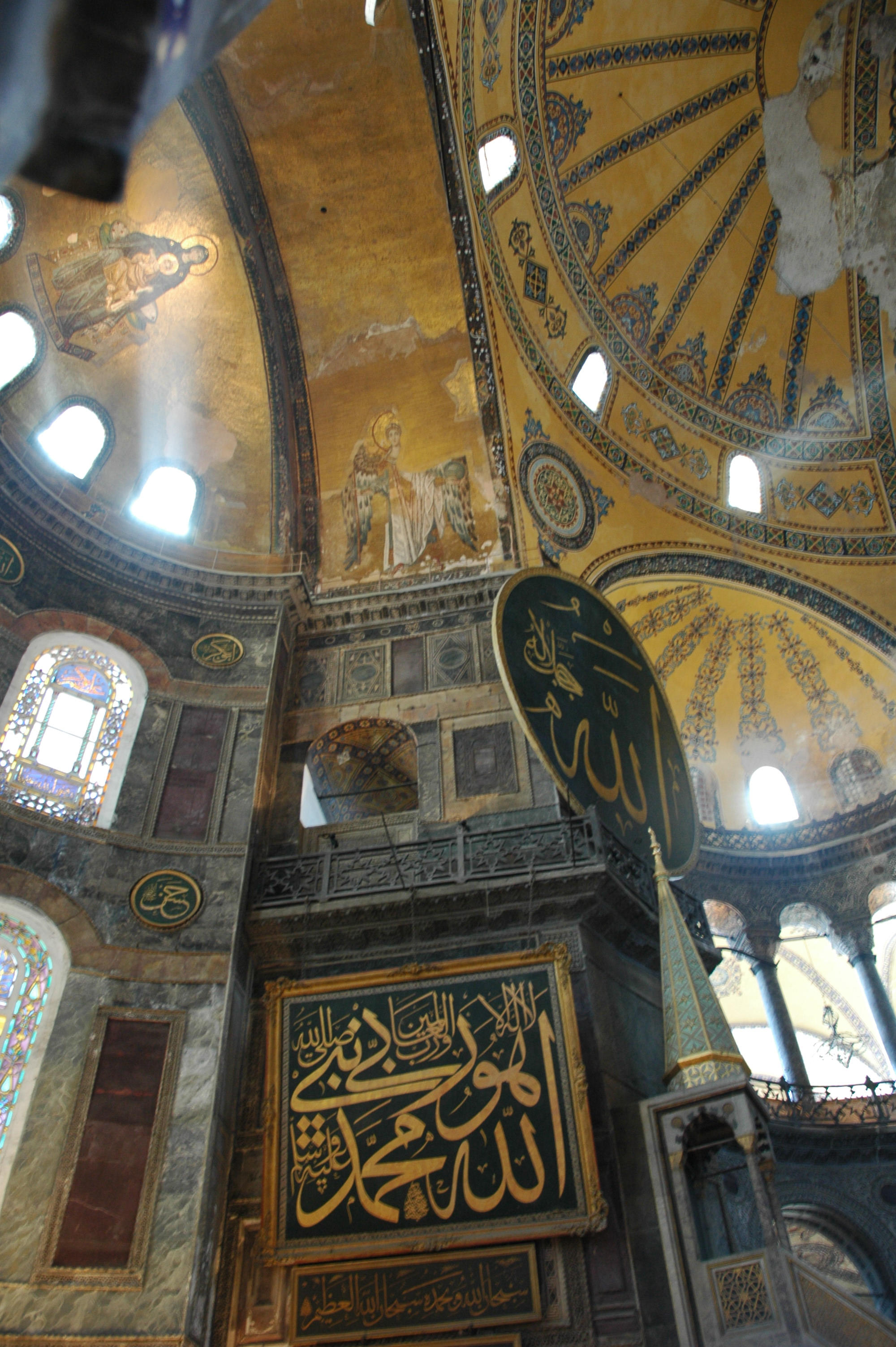 Author: Luke Gerke